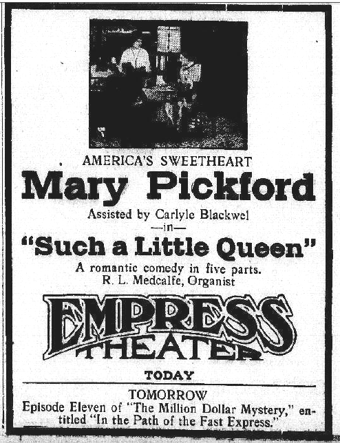 Newspaper ad for Such a Little Queen (1914) with Mary Pickford.